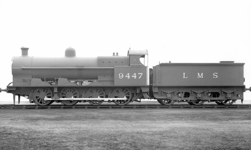 Photograph of LMS engine No. 9447 G2 Class Superheated